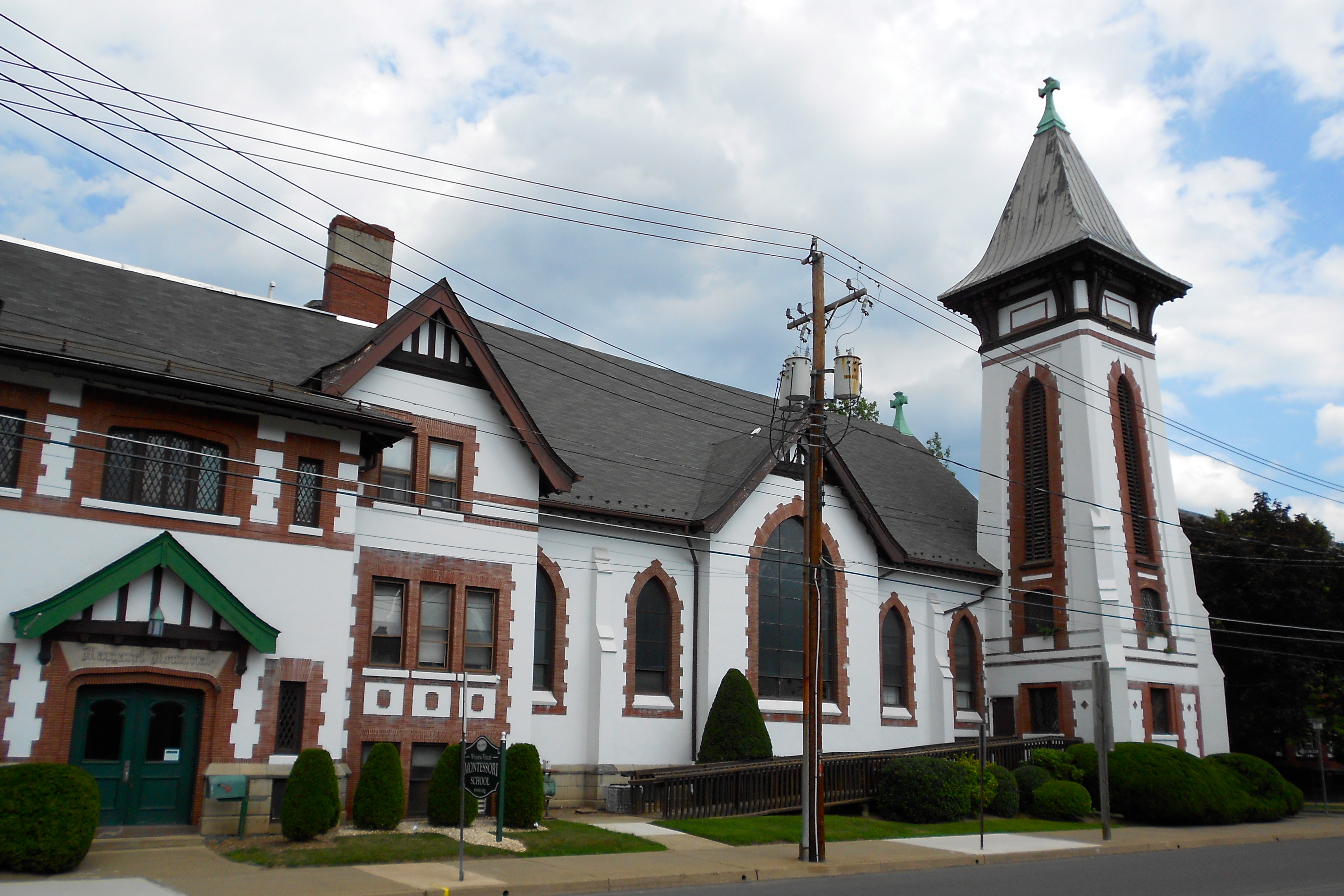 Church across the street from Wyoming Seminary, on the NRHP since August 6, 1979, on Sprague Avenue, Kingston, Luzerne County, Pennsylvania